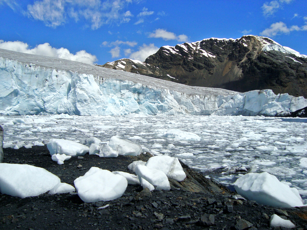 Pastoruri glacier located in central Peru in the Cordillera Blanca (White Range).